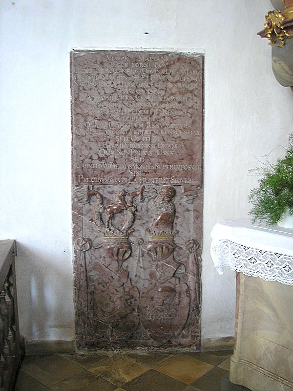 Parish church St. Ulrich (Eresing, Landkreis Landsberg am Lech, Upper Bavaria, Germany). Tombstone at the church